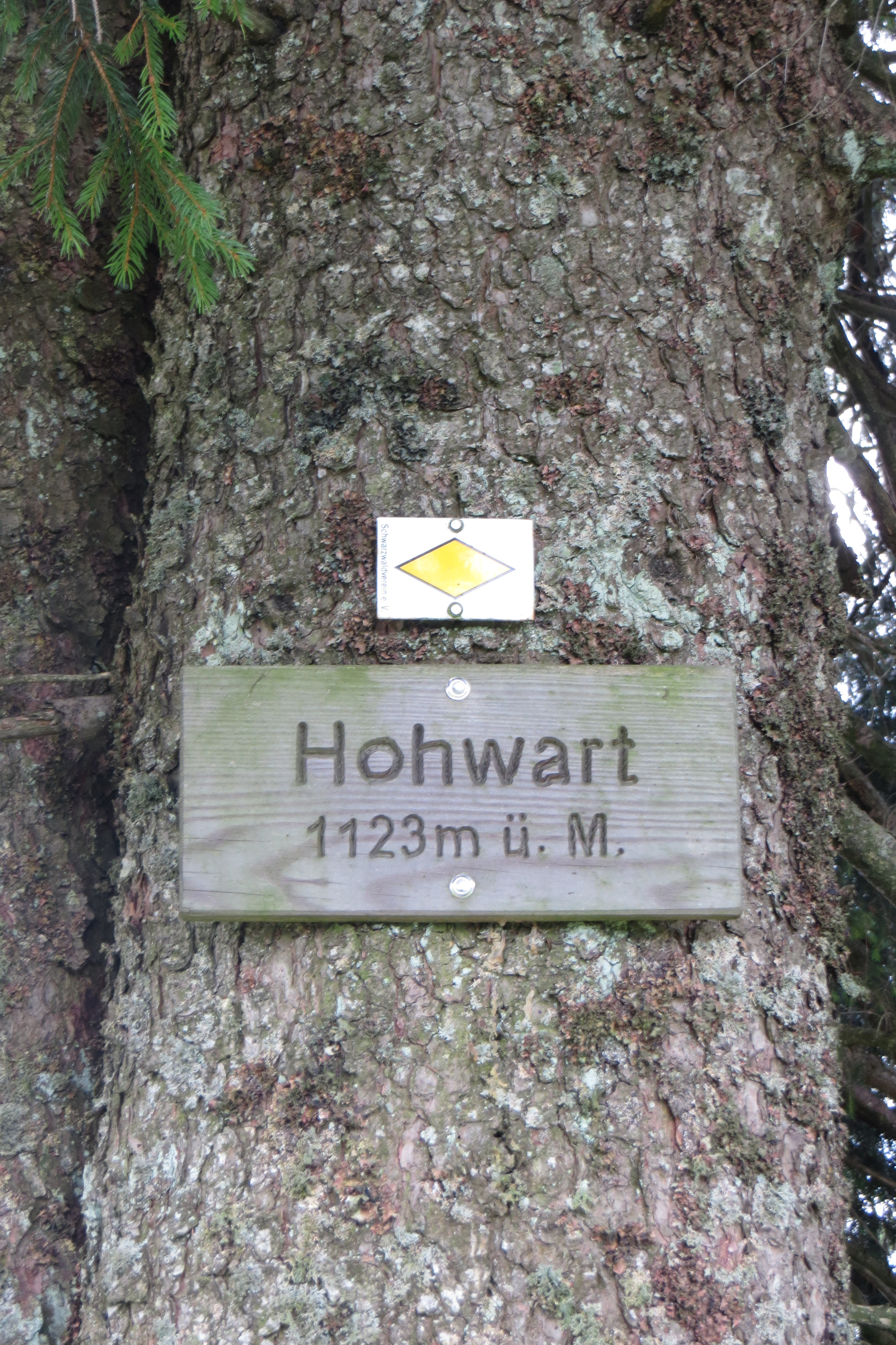 Sign marking the summit and height of the Hohwart, a mountain near Breitnau, Black Forest, Baden-Wuerttemberg, Germany